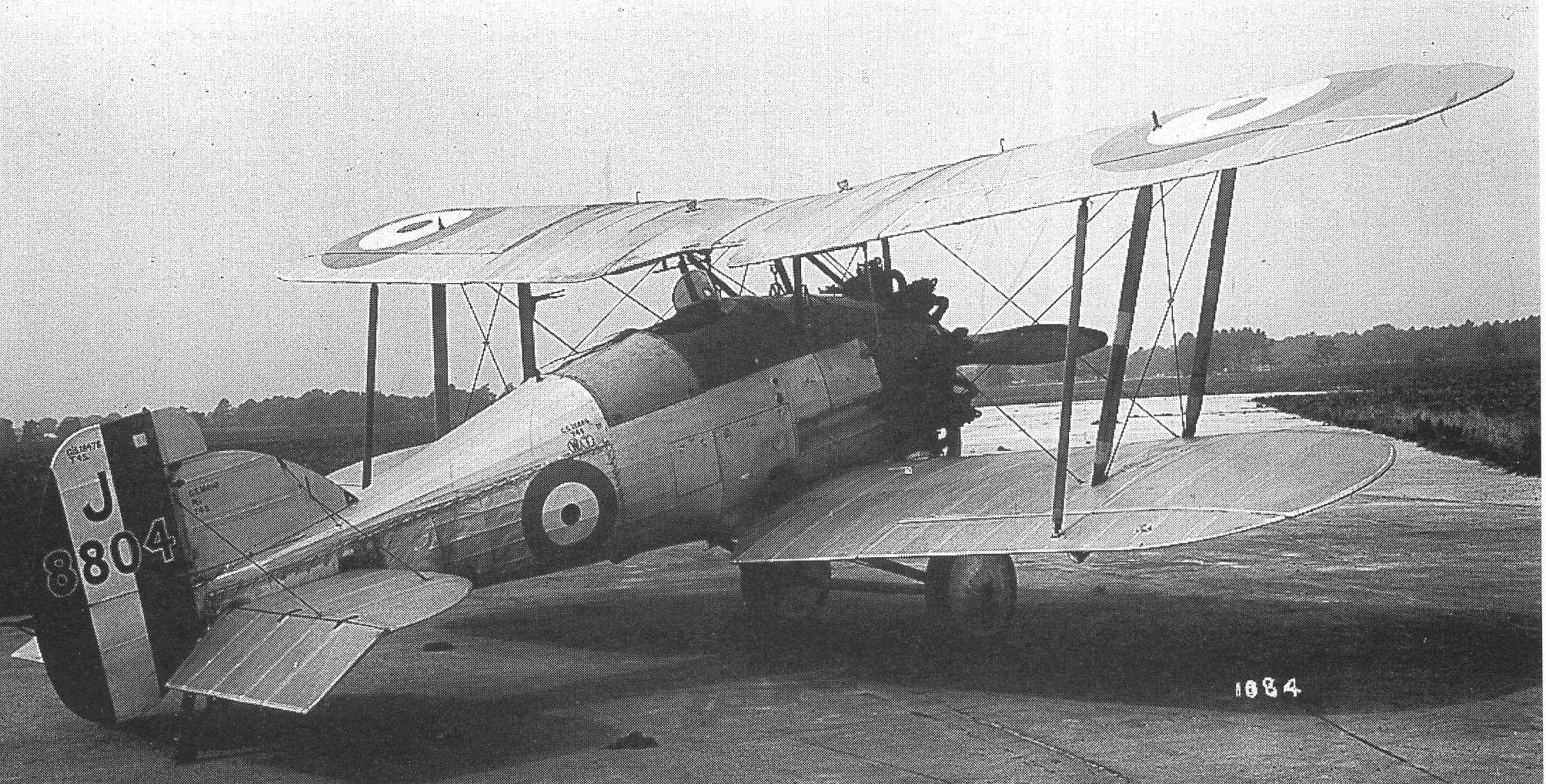 Gloster Gamecock J78804, July 1927, outward laning struts